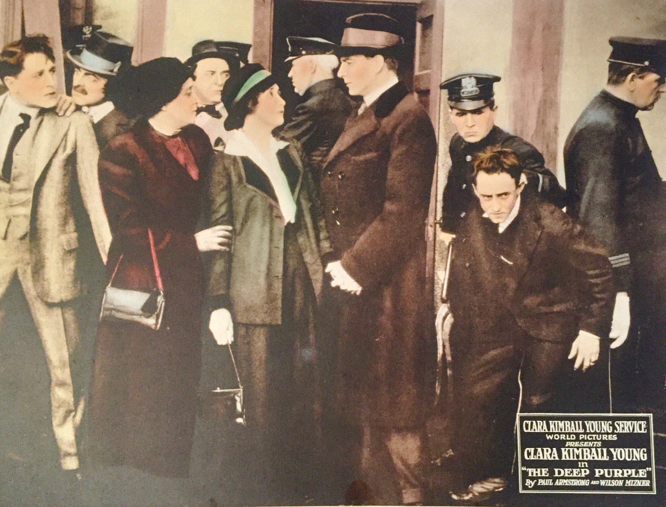 Lobby card for the 1915 film The Deep Purple.